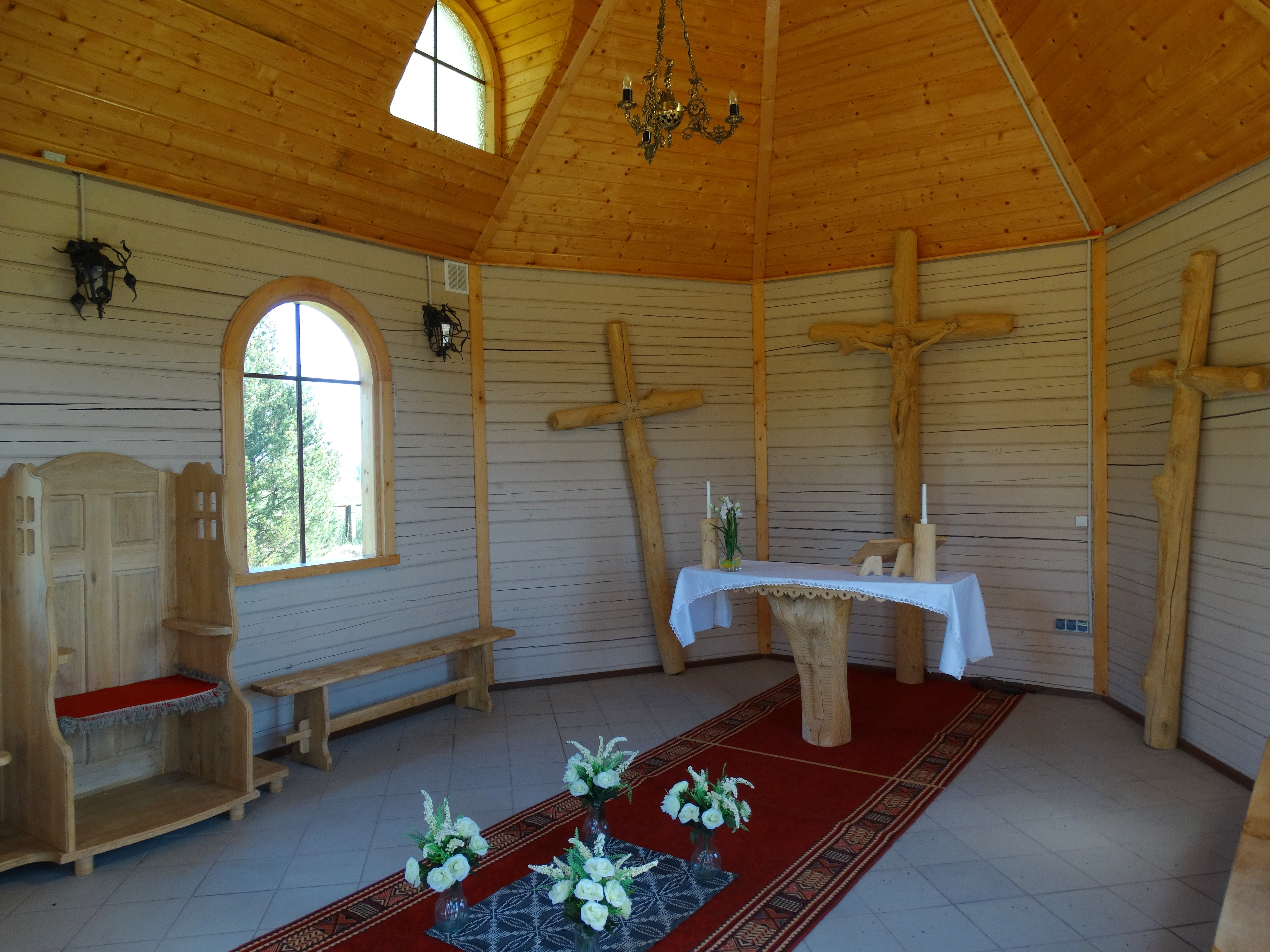 Dvarviečiai Chapel, Šilalė District, Lithuania